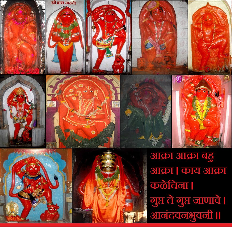 ramdas 11 maruti